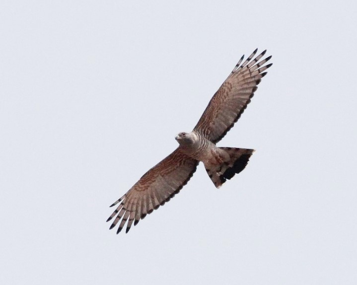 African cuckoo hawk at Mahango Game Reserve in northern Namibia